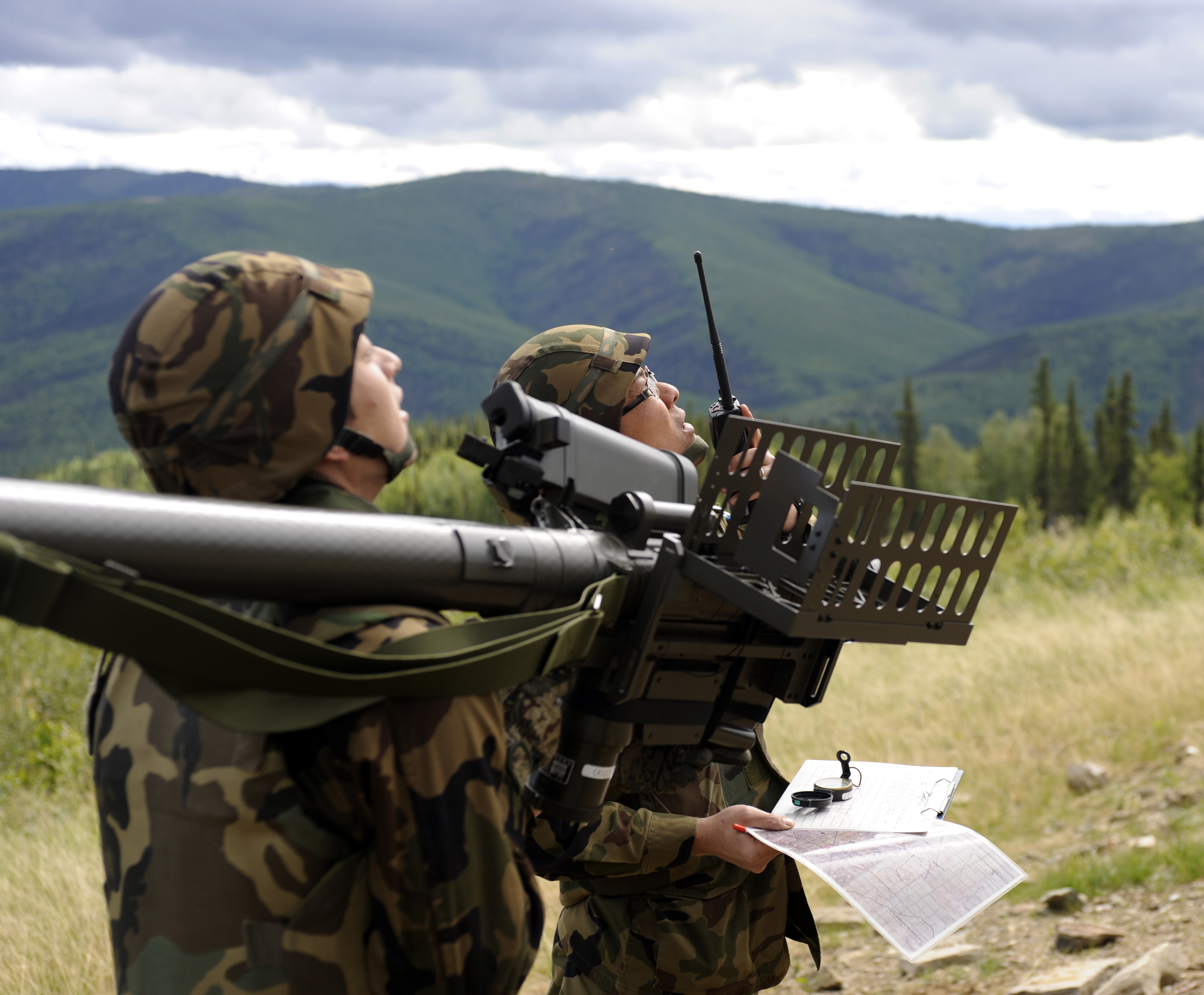 Japanese Air Self-Defense Force service members search for aircraft June 16, 2010, Eielson Air Force Base, Alaska. The JASDF members were firing mock surface-to-air missiles to train pilots how to react in case the encounter the situation in actual combat. This training operation was part of the joint multinational exercise Red Flag - Alaska